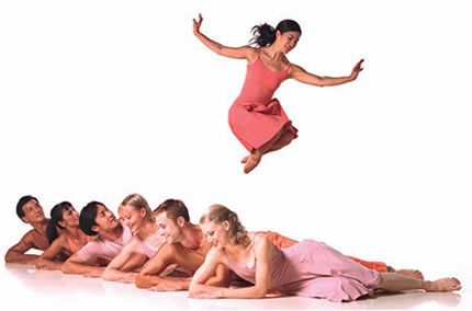 The Paul Taylor Dance Company performing Taylor's Esplanade, which was reconstructed by Ruth Andrian and was performed by Florida State University as part of the American Masterpieces: Dance -- College Component.